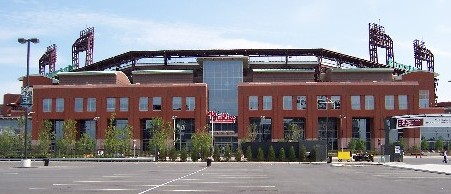 15:00, 25 June 2006 . . Joenad . . 451×194 (35,494 bytes)